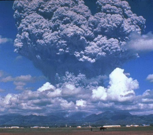 Ash cloud of Pinatubo during 1991 eruption.